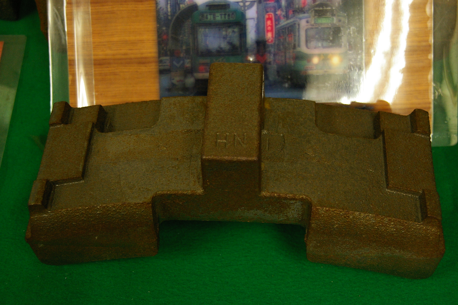 Train burake shoe, made by JR hokkaido naebo factory.